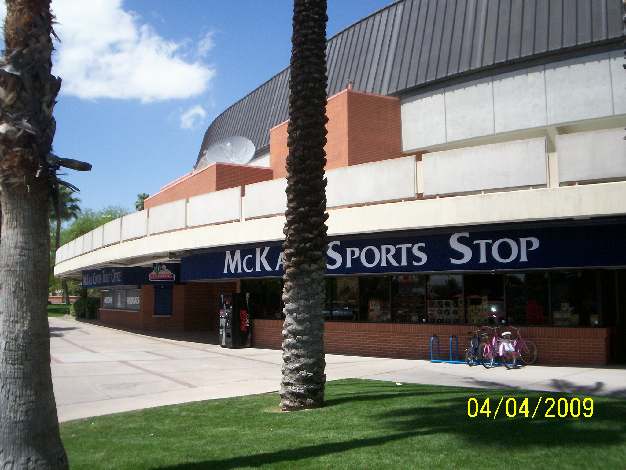 A side view of McKale Center on the campus of the University of Arizona, Tucson, Arizona